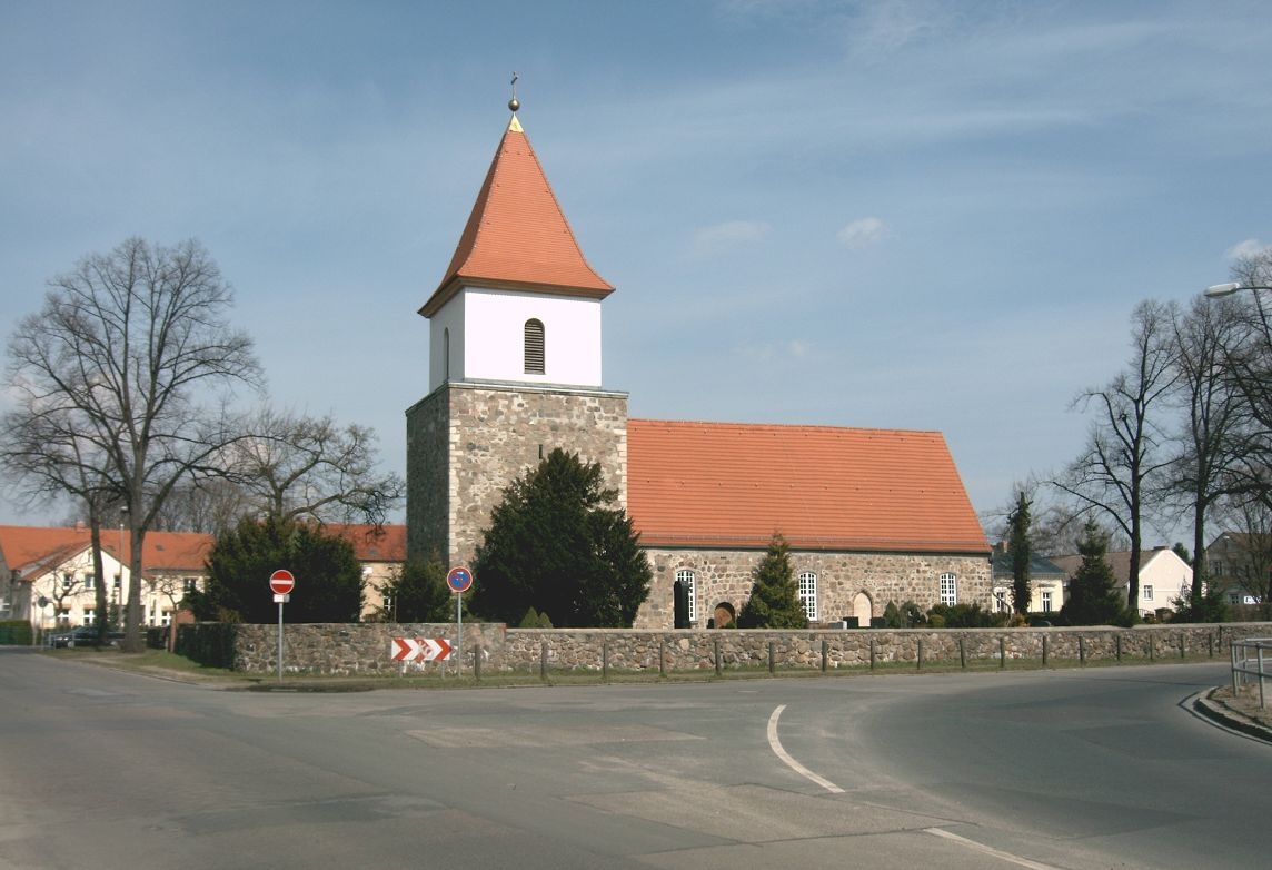 Church of Berlin-Blankenburg.